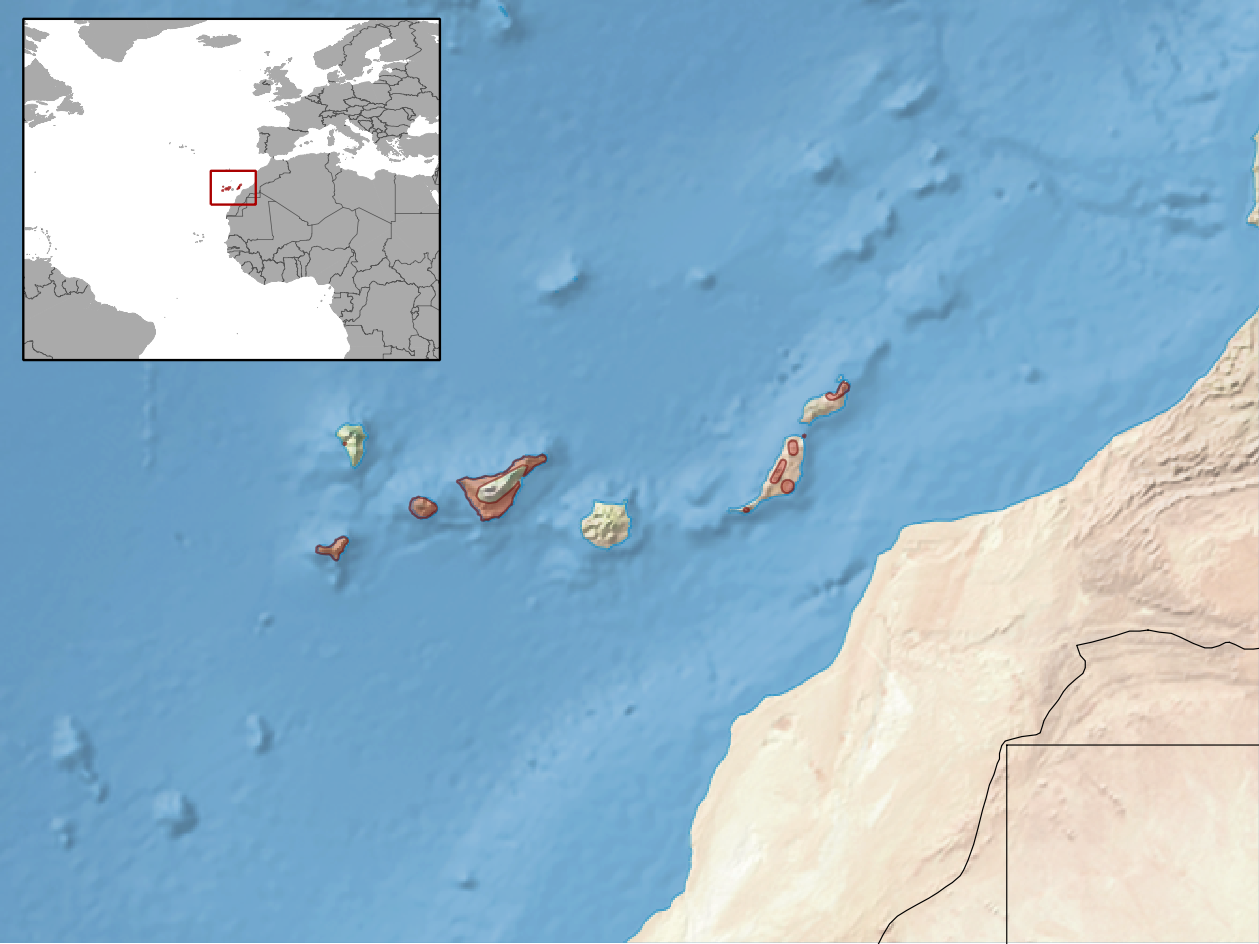 geographic distribution of Chalcides viridanus, according to RDB. Includes both C. viridanus and C. simonyi